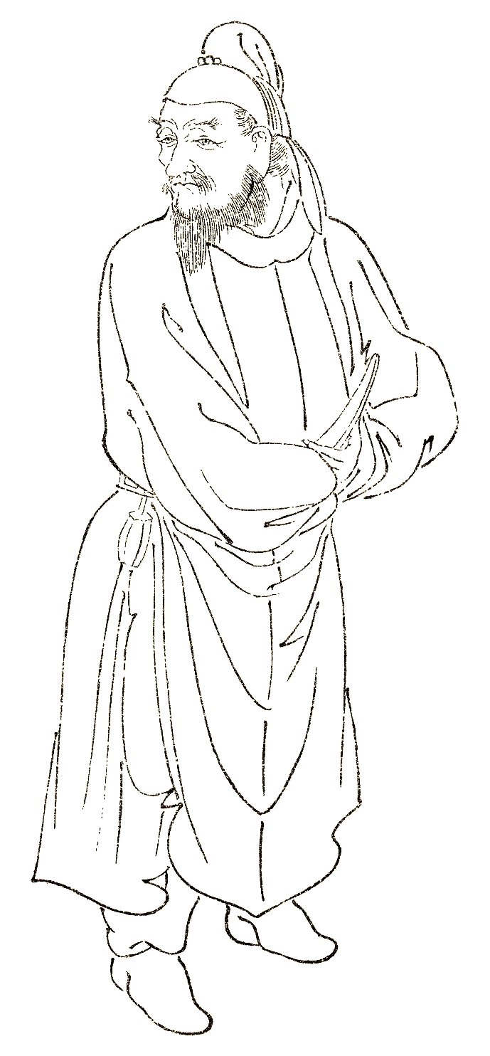 Abe no Nakamaro